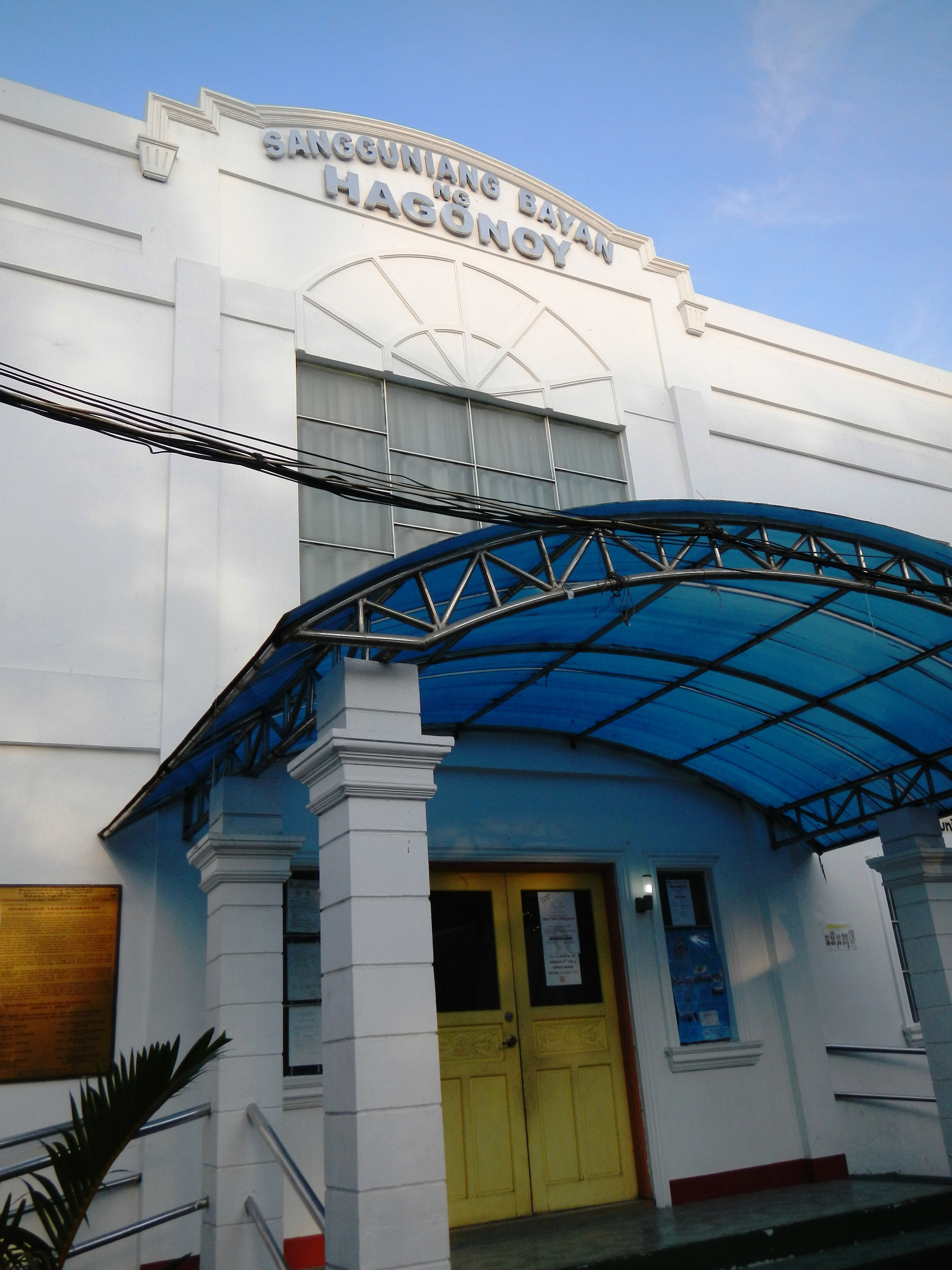 Hagonoy Municipal Hall Complex Compound, Hagonoy, Bulacan including the Offices, Sangguniang Bayan, Police Station along the Malolos-Paombong-Hagonoy Provincial Road leading the the next Barangays of Hangga, San Agustin and San Pedro, gateway to Paombong, Bulacan.